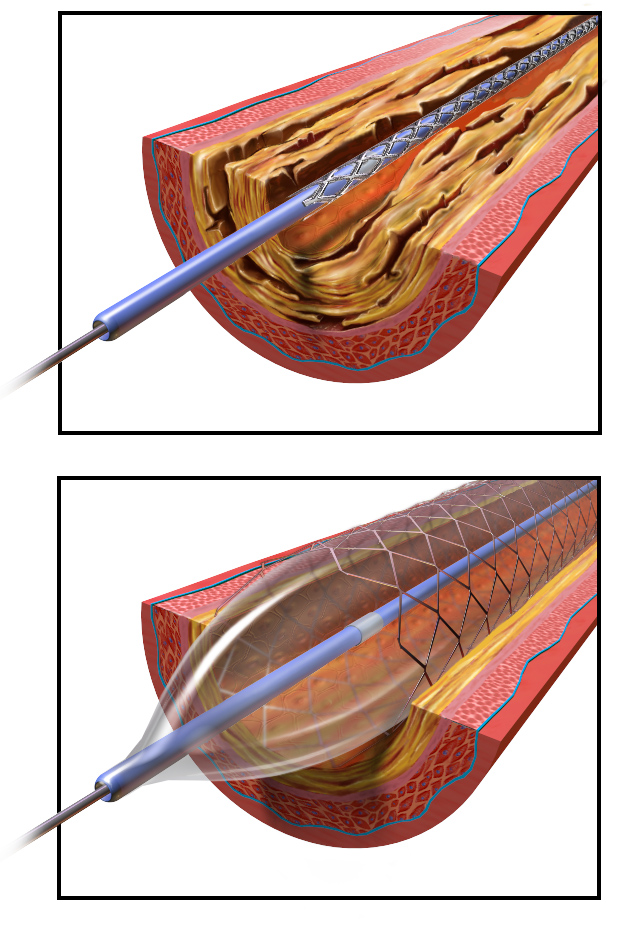 Angioplasty - Balloon Inflated with Stent. Animation in the reference.[1]